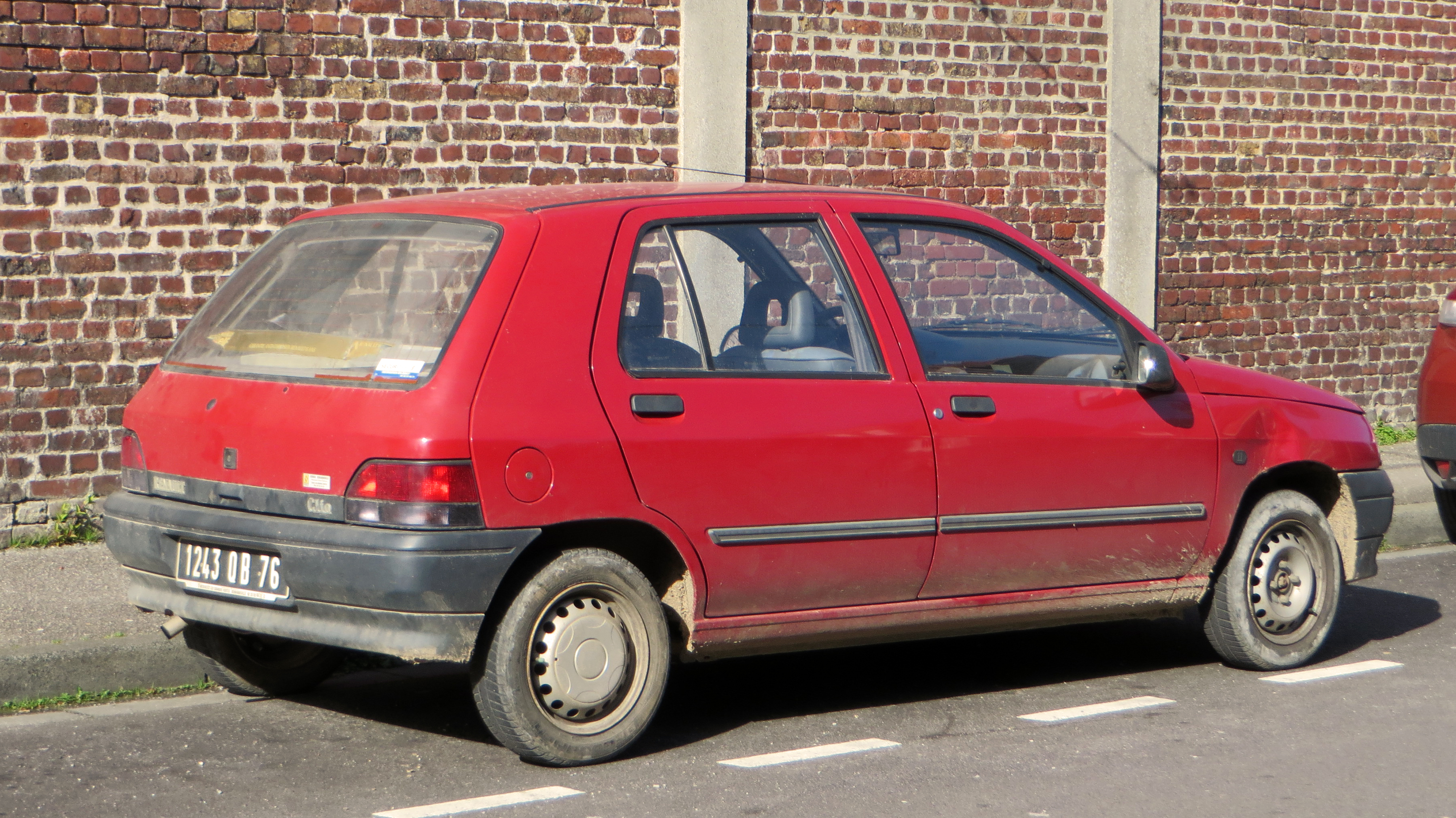 1990 Renault Clio 1.1 Phase 1 An early phase 1 - the Clio was intrduced in June 1990 - and a very basic model.